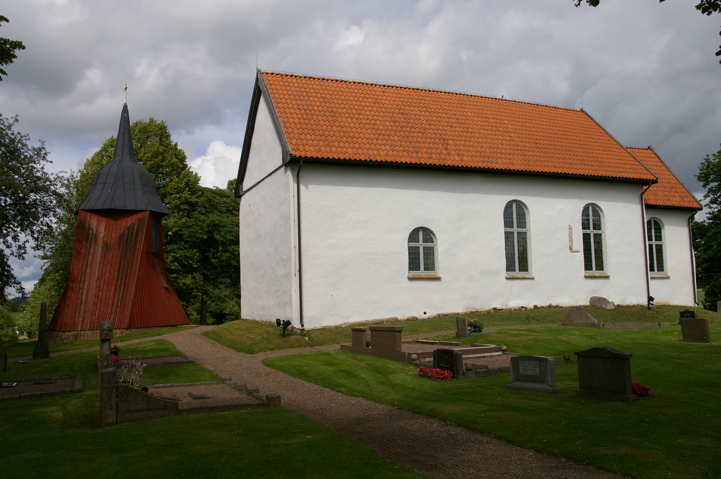 Marka kyrka (the Church of Marka).